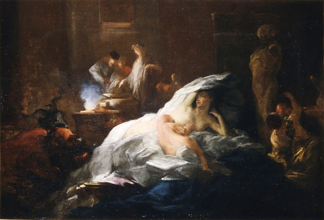 French baroque painting